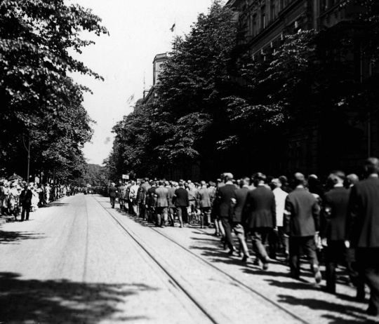 The Peasant March in Finland in 1930. Participants in the Peasant March, organized by the Lapua Movement, on Bulevardi en route to a group meeting on Helsinki Senate Square.